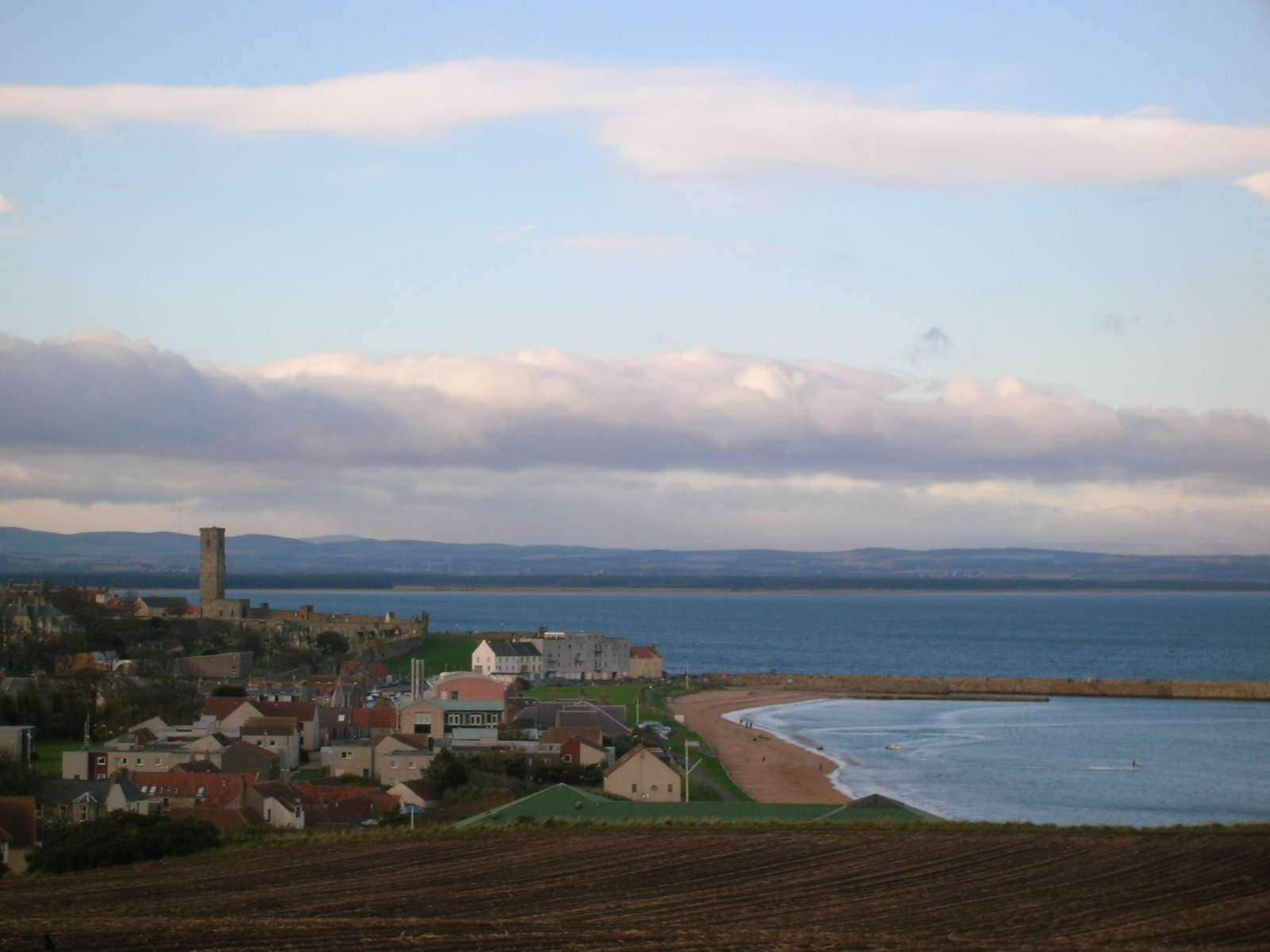 General view of St. Andrews, Fife.